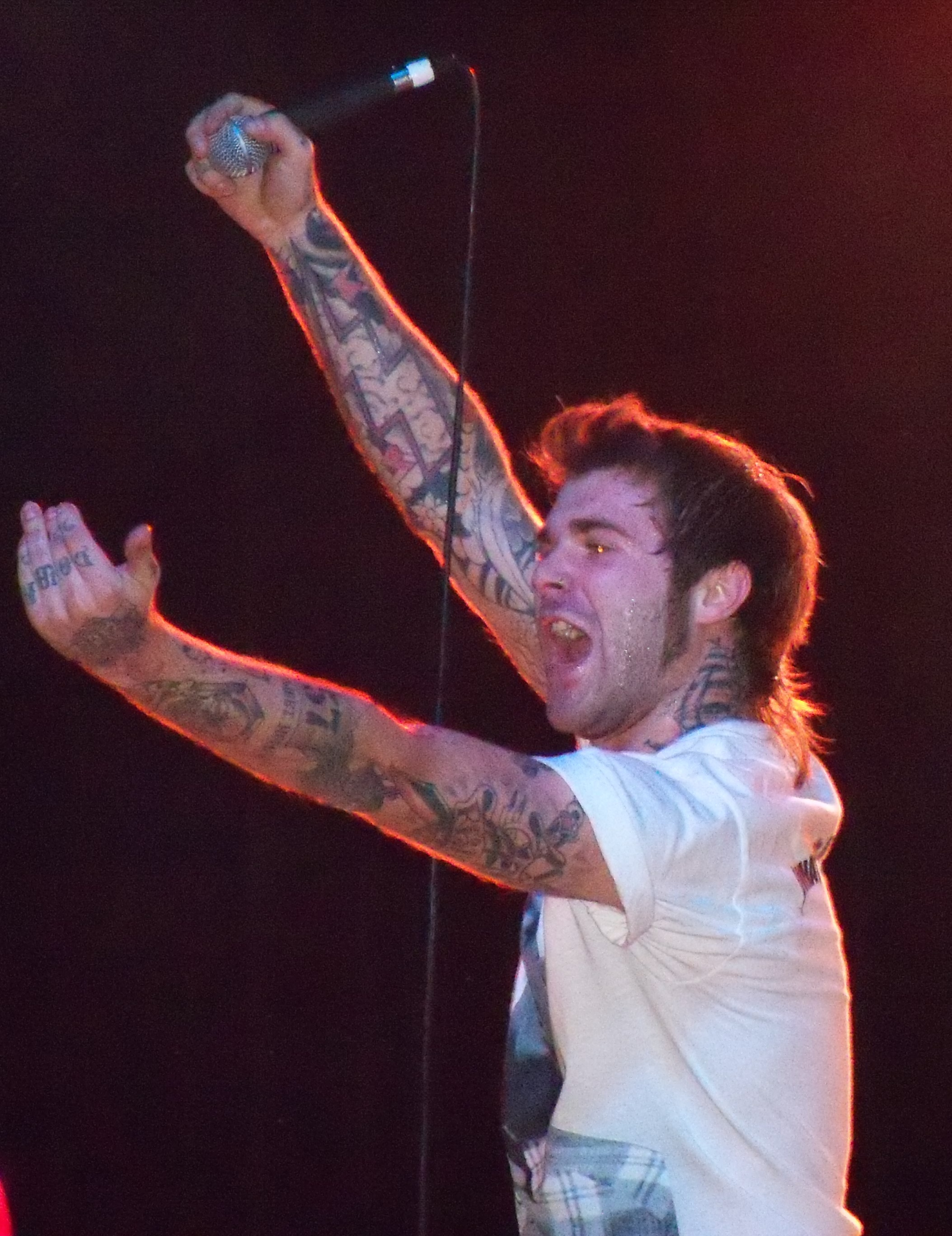 Vocalist, Jerry Roush performing as a part of Of Mice & Men in 2010 in Tempe, Arizona on Attack Attack!'s This Is a Family Tour.